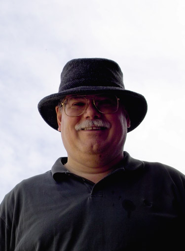 James M. Jimbo Lyon, co-author of INTERCAL, shot by his brother.